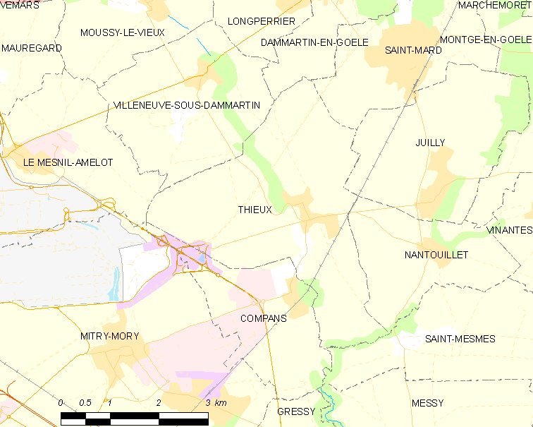 Map of French municipality Thieux